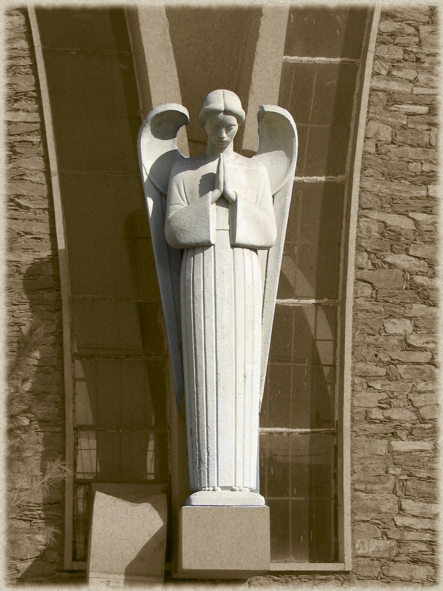 Sculpture at "La Purisima" Church in Monterrey Mexico. Ditail of art of Architect Enrique de la Mora 1946.